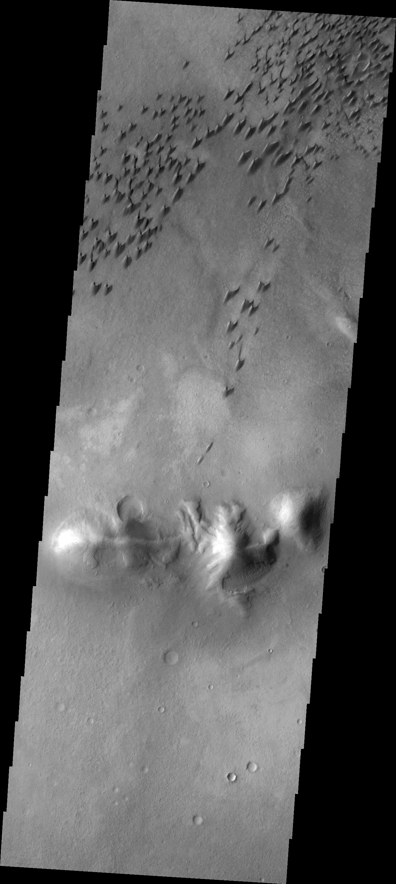 Arkhangelsky_crater_dunes, as seen by themis. Location is 41.1 S and 24.8 w. Picture is 17.8 km wide. Picture taken with Mars Odyssey's THEMIS. Photo credit NASA/JPL/ASU.